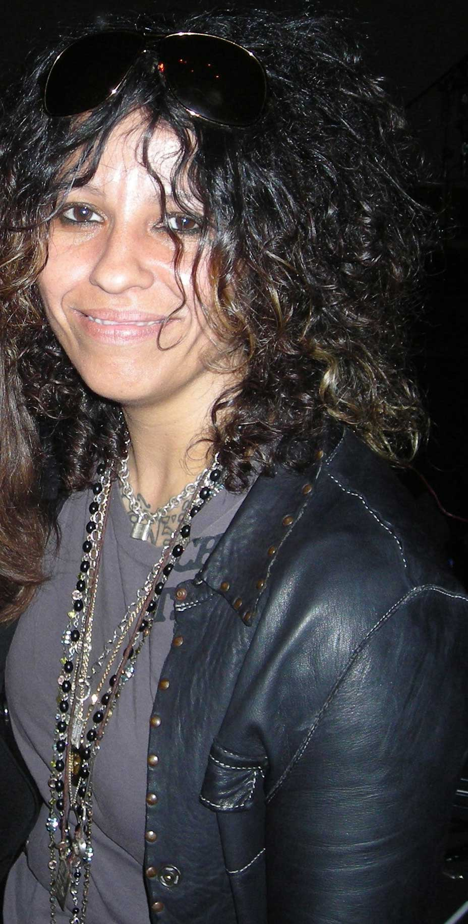 Linda Perry at the Los Angeles Gay and Lesbian Center on 2008-05-03